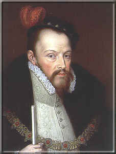 Thomas Stanley, 2nd Earl of Derby (c1477-1521)